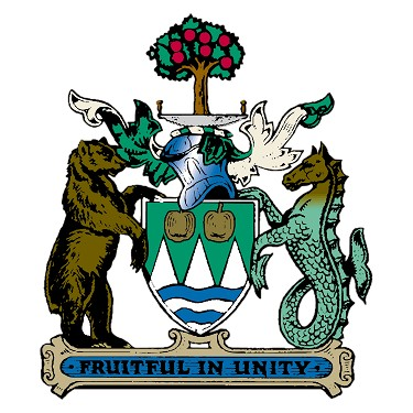 coatofarms Kelowna